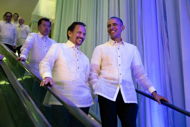 President Barack Obama talks with Sultan Hassanal Bolkiah, Brunei Darussalam, wearing traditional off-white linen Barong Tagalog shirts, at the Asia Pacific Economic Cooperation Summit (APEC) leaders welcome dinner at the Mall of Asia Arena in Pasay, Metro Manila, Philippines